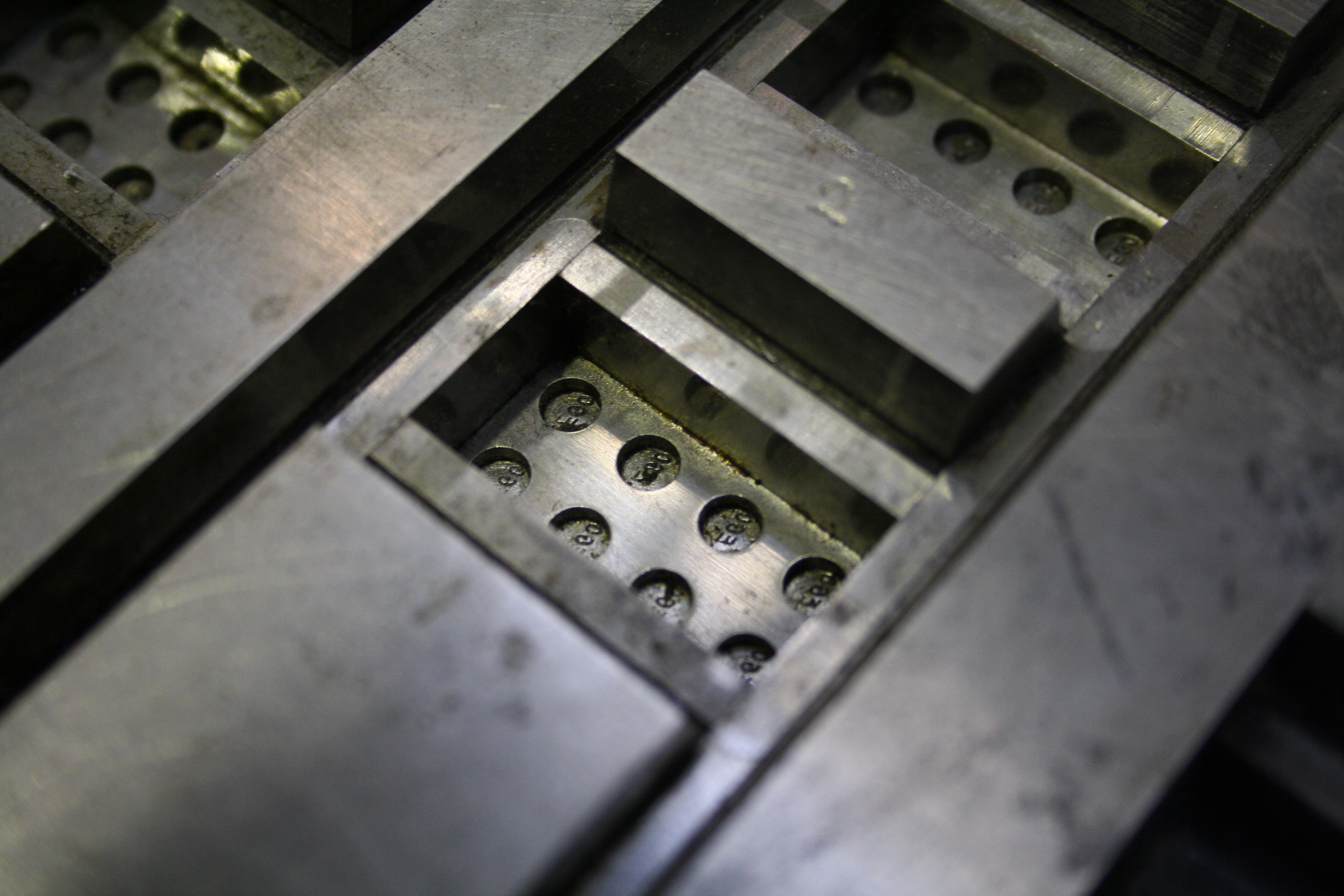 Detail of a Lego injection mold. Photo taken at "Landesmuseum für Technik und Arbeit" at Mannheim, Germany (Mannheim State Museum for Engineering and Work)